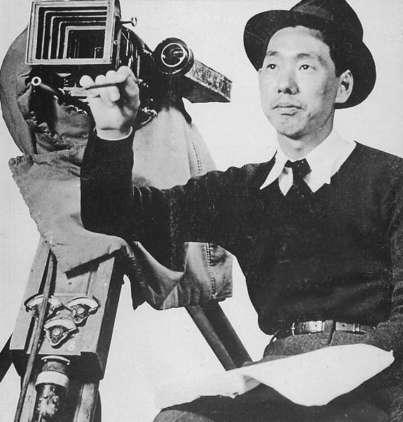 Mikio Naruse (20 August 1905– 2 July 1969)